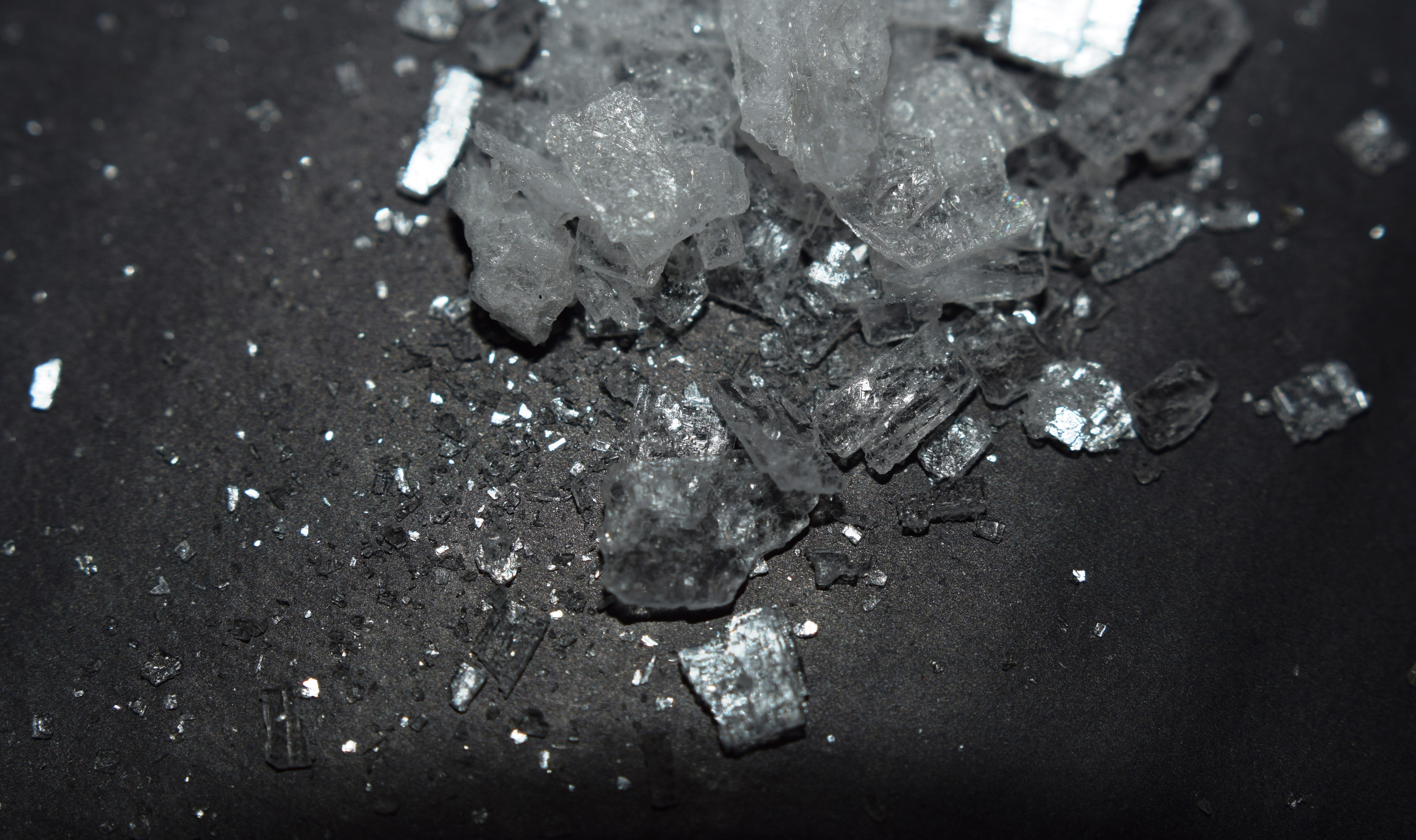 Phenylethylamine hydrochlorideLatviešu: Feniletilamīna hidrohlorīds